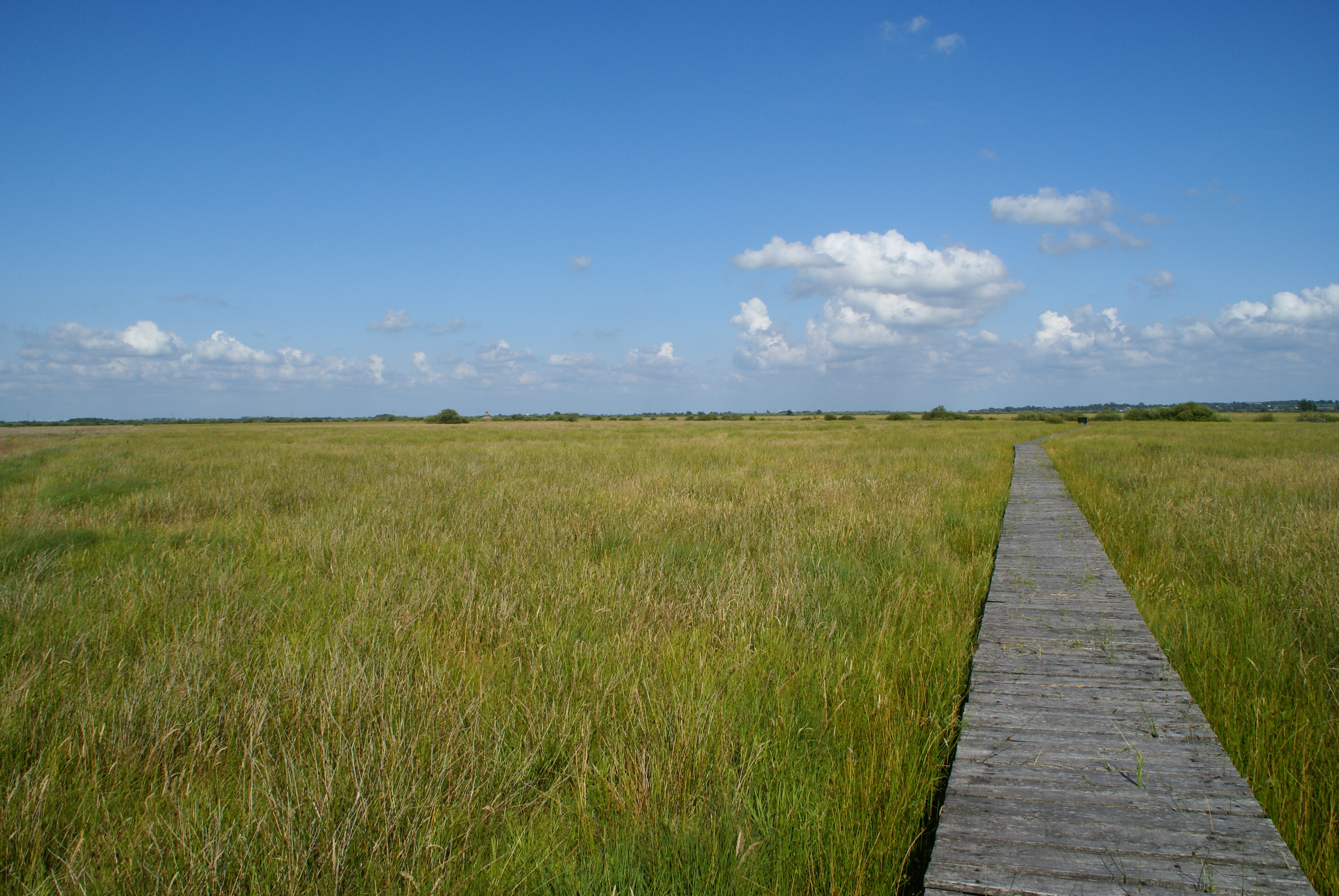 open landscape "Wildes Moor" mire, Schleswig-Holstein, Germany